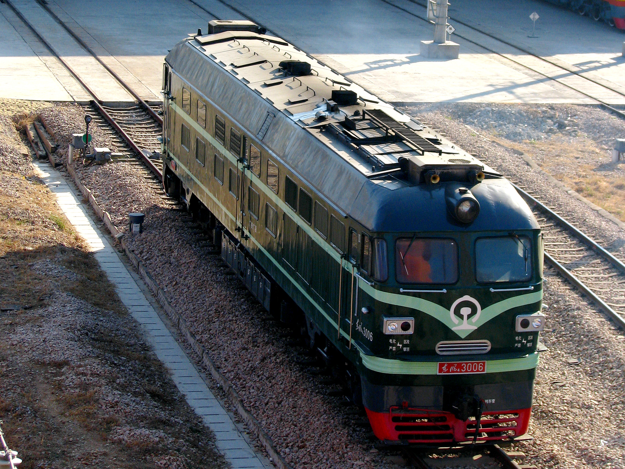 China Railways DF4 3006 diesel locomotive produced by Ziyang Locomotive Works